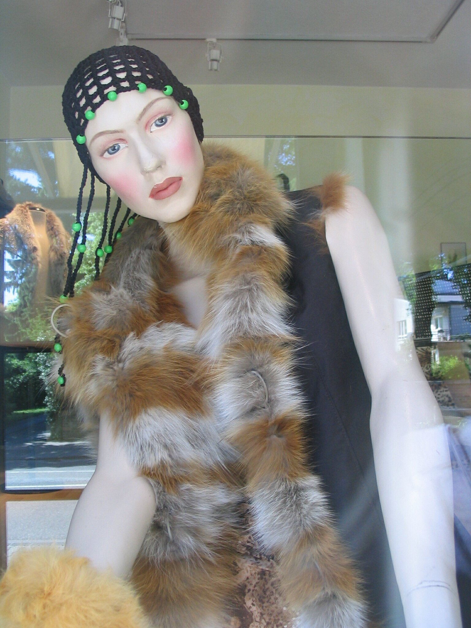 Furrier Norbert Koster in Haan, Germany